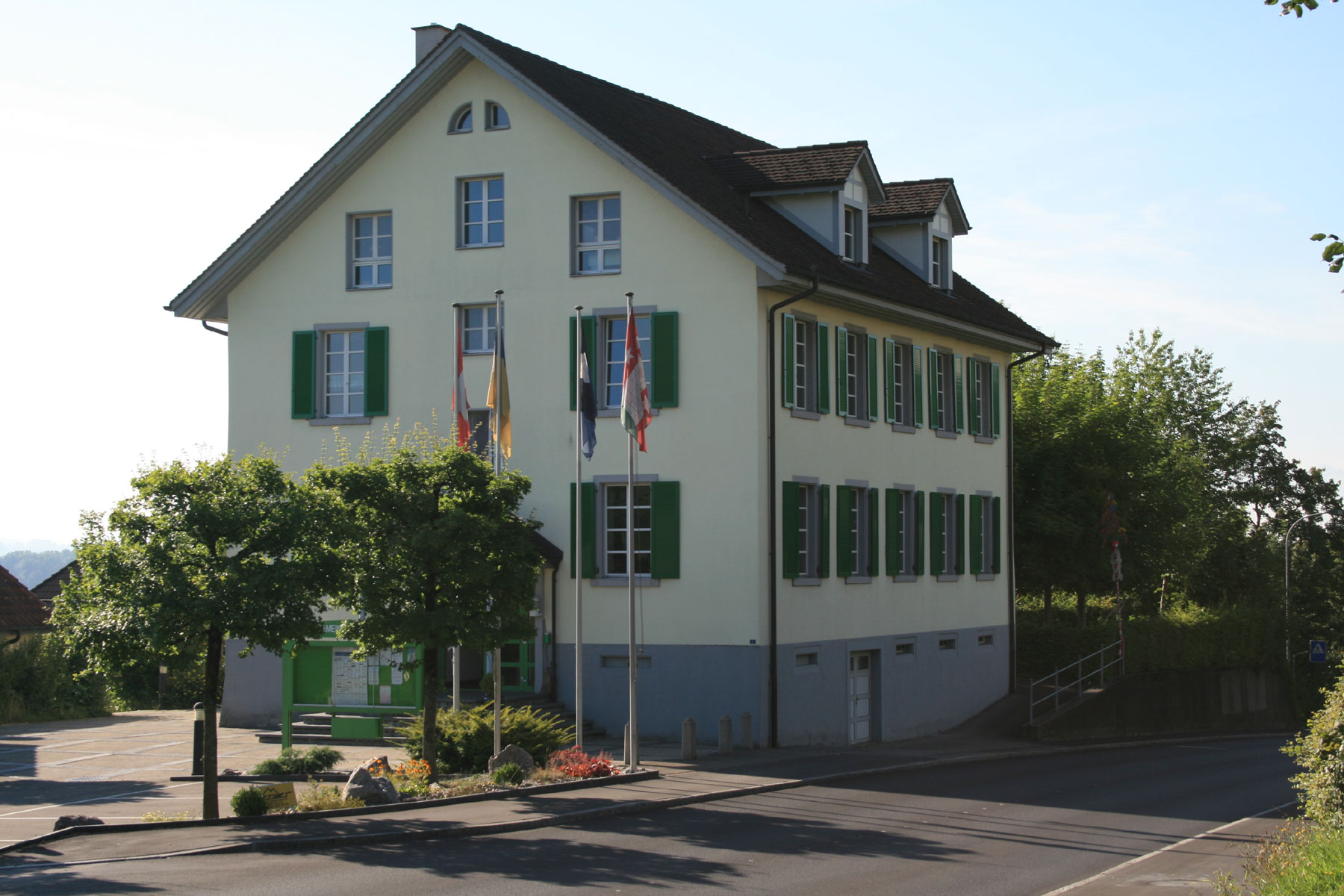 Cityhall, Aristau AG, Switzerland